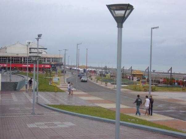 playa